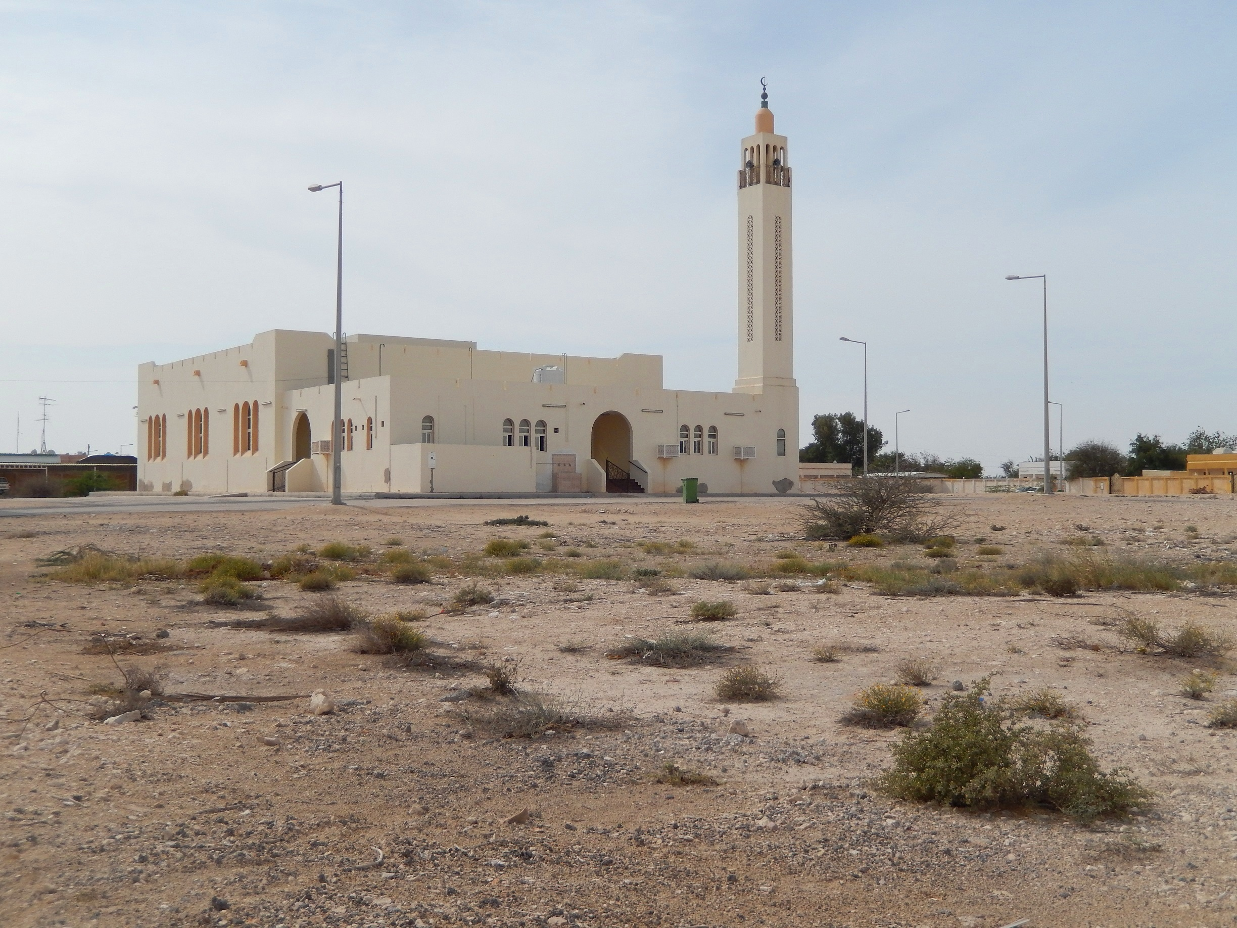 Mosque in Al Jumailiyah; in the northern part of the village (municipality of Al Rayyan, Qatar).